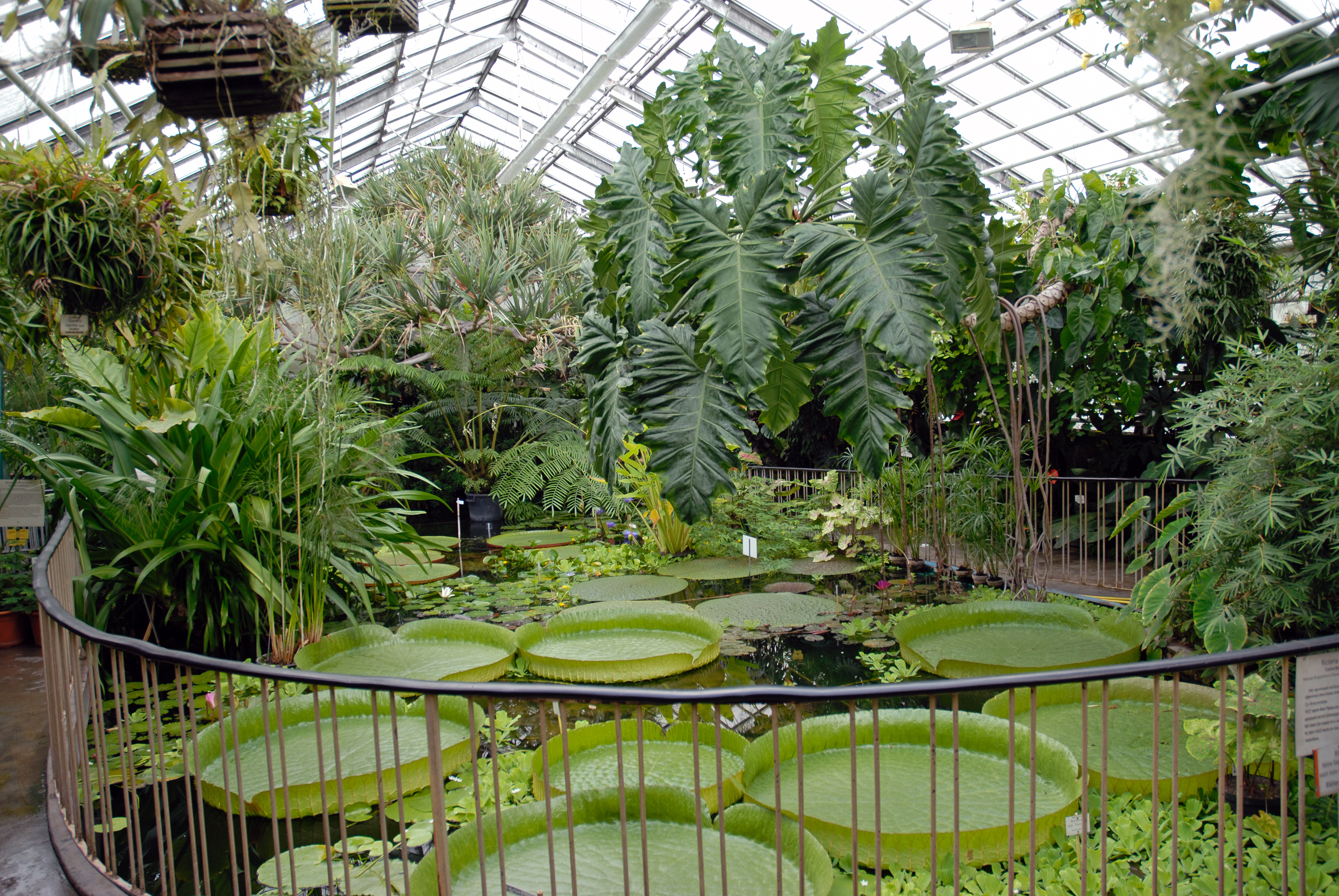 This image shows the botanical garden in Jena.